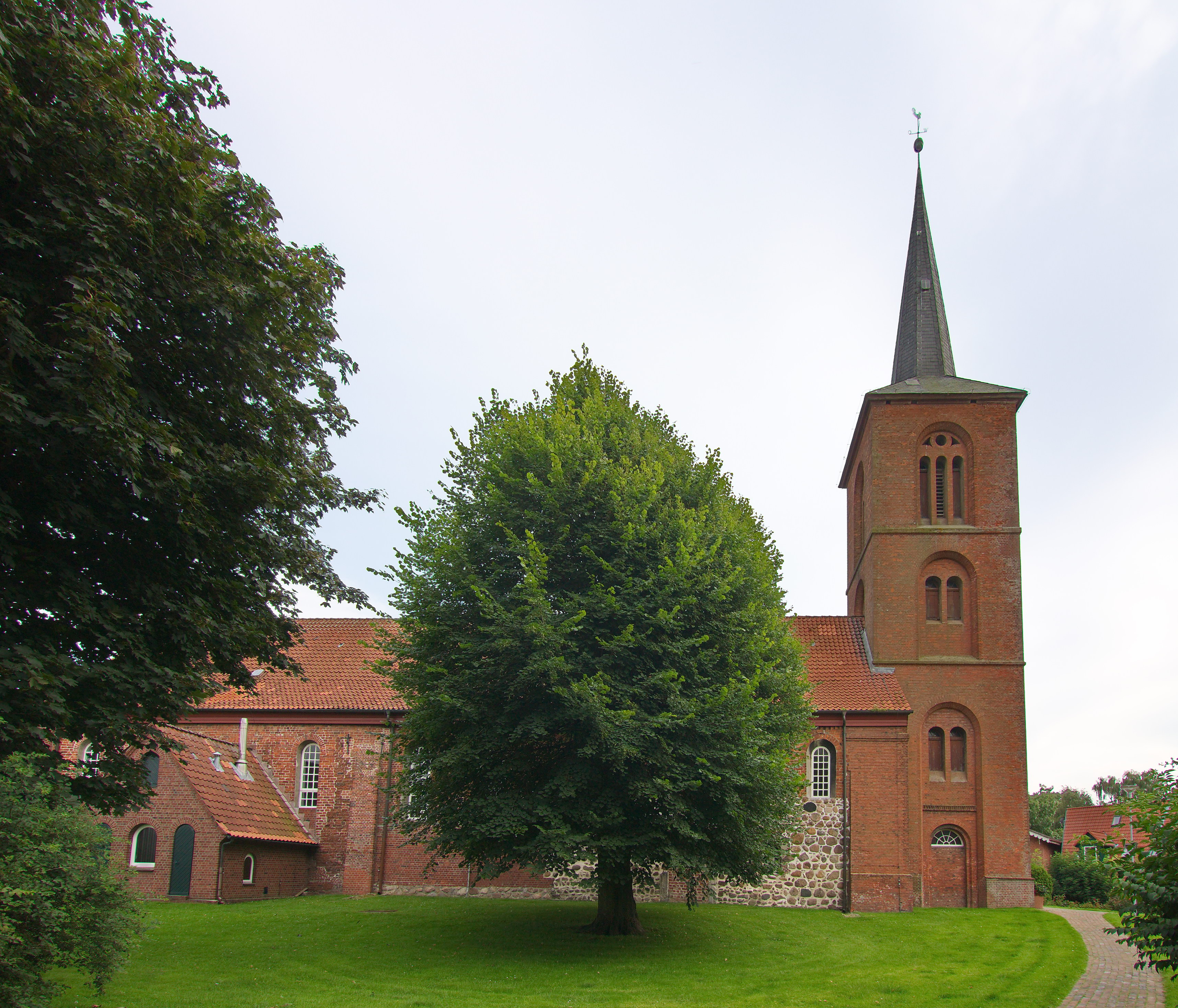 Die St.-Martin-Kirche zu Assel in Assel (Drochtersen), Niedersachsen, Deutschland, wurde Mitte des 16. Jahrhunderts auf den Resten der Vorgängerkirche von 1141 erbaut.